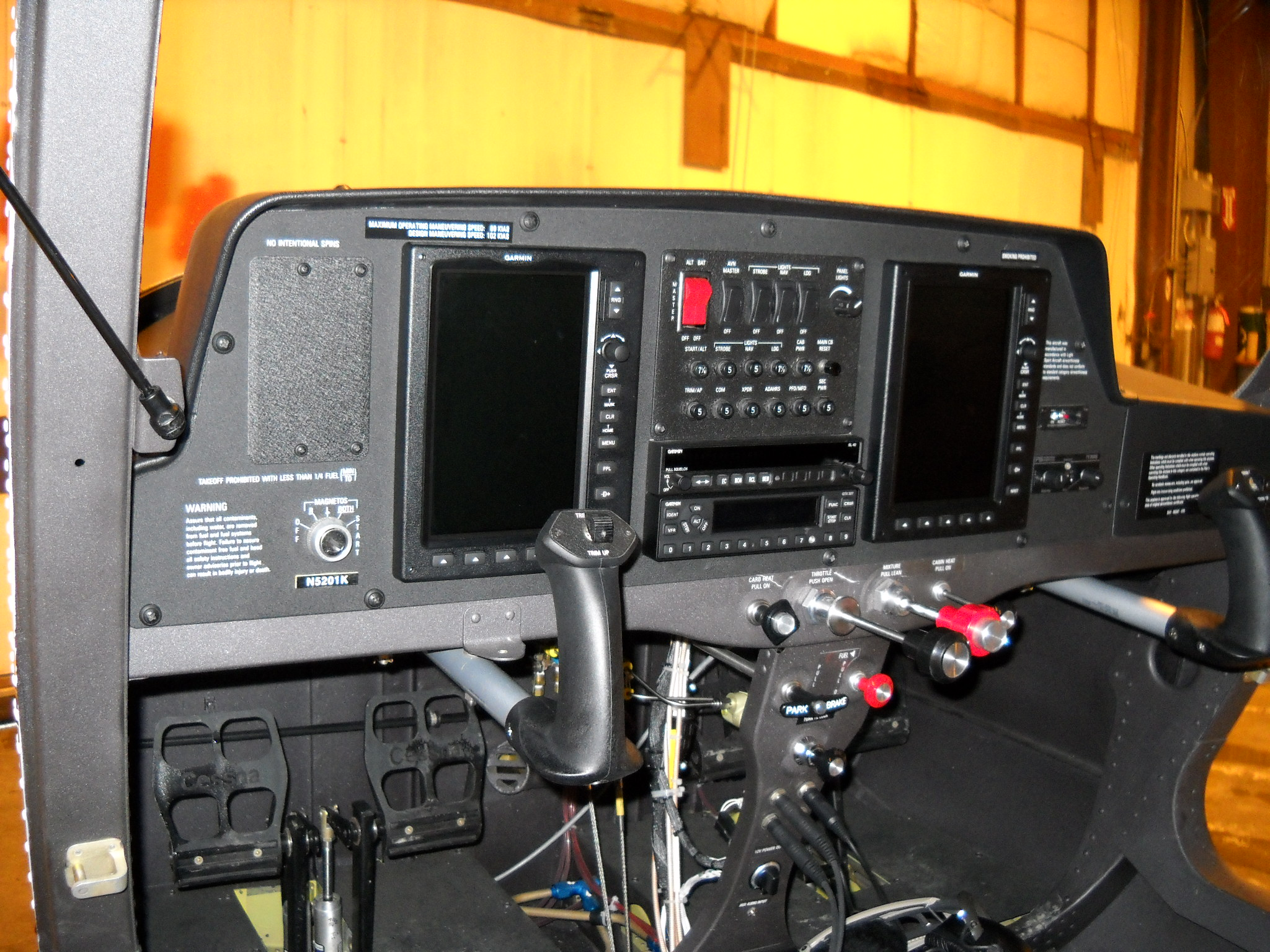 Cessna 162 Skycatcher serial number 16200010 instrument panel at the Ottawa Flying Club